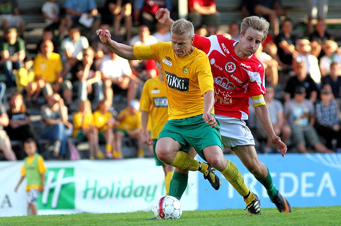 Football player Jari Niemi of Ilves Tampere